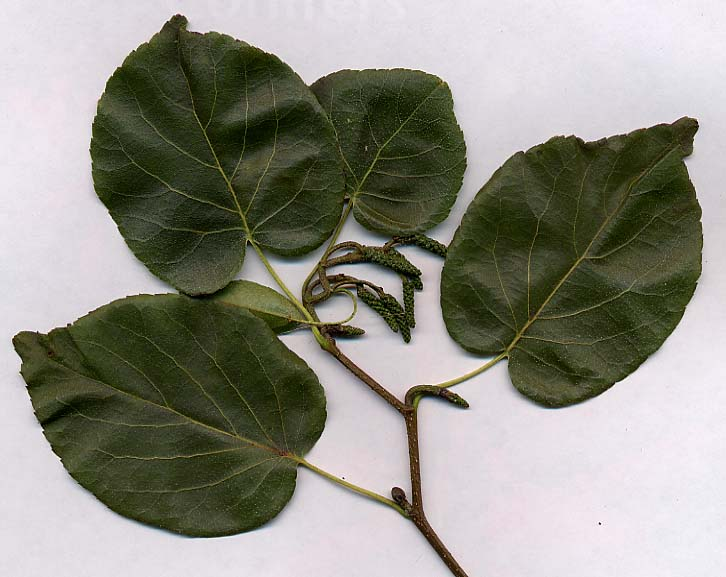 Italian Alder leaves and immature male catkins - photo MPF